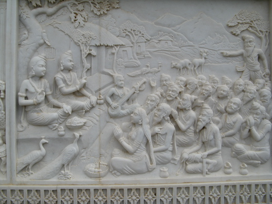 Curse by Rishi Durvasa to Nara Narayana at Badrikashram, Sculpture at Swaminarayan Temple Bhuj